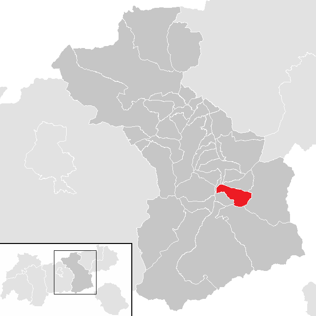 District Schwaz